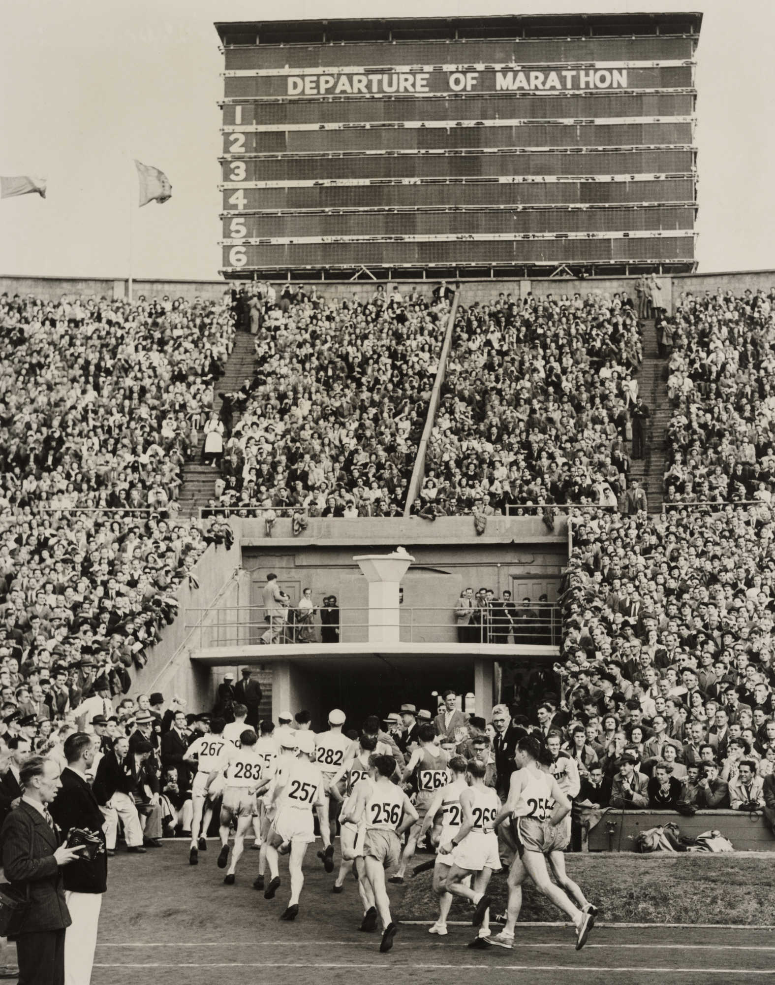 Start of Olympic marathon at Wembley Stadium, London, 1948. (7649951998).jpg, Daily Herald Archive at the National Media Museum